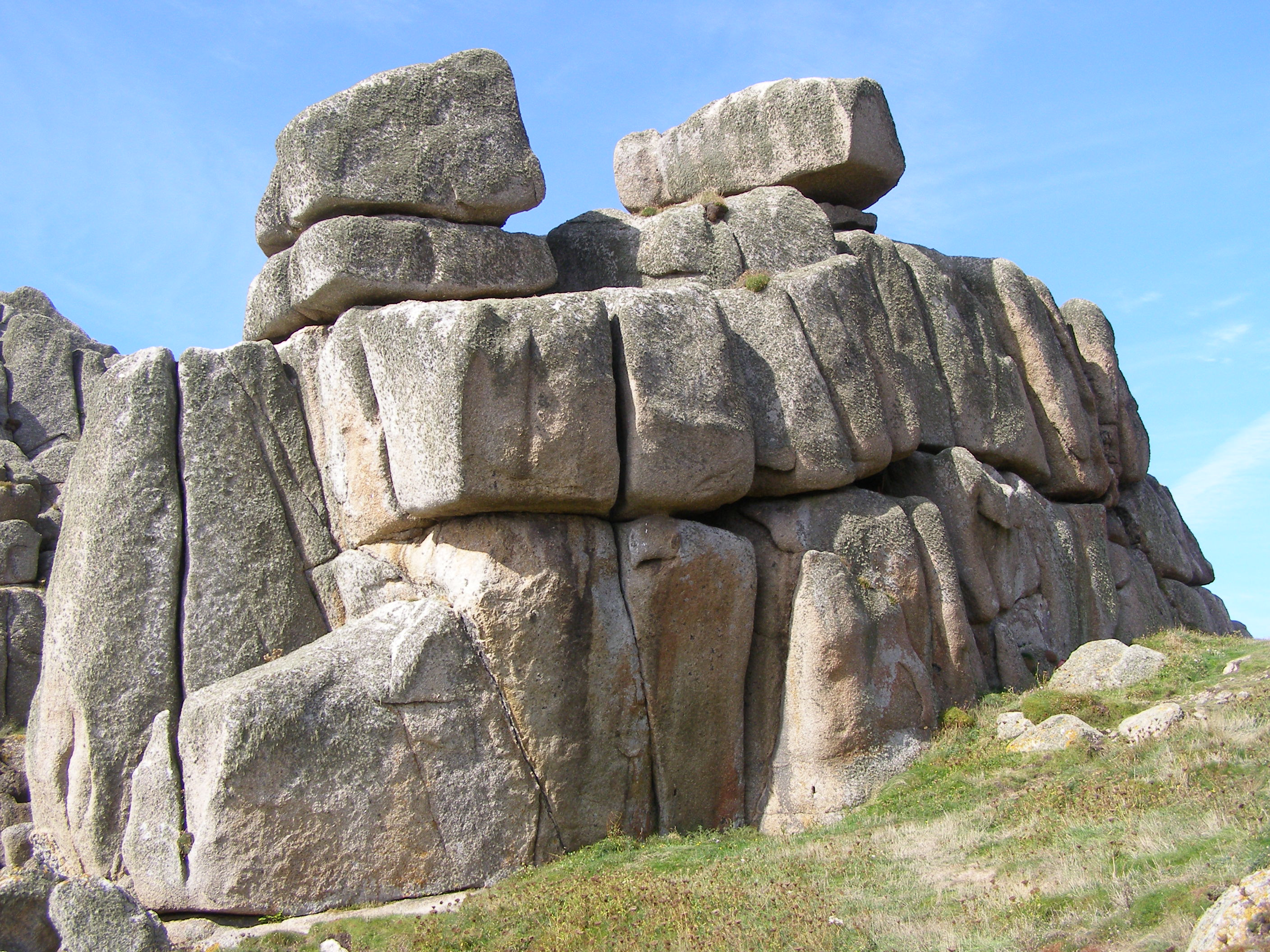 The Logan Rock (top right) at the headland south of Treen, Cornwall